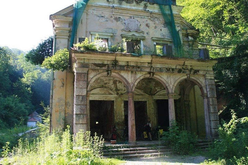 old baroque revival, fin-de-siecle spa building in Moneasa, Romania